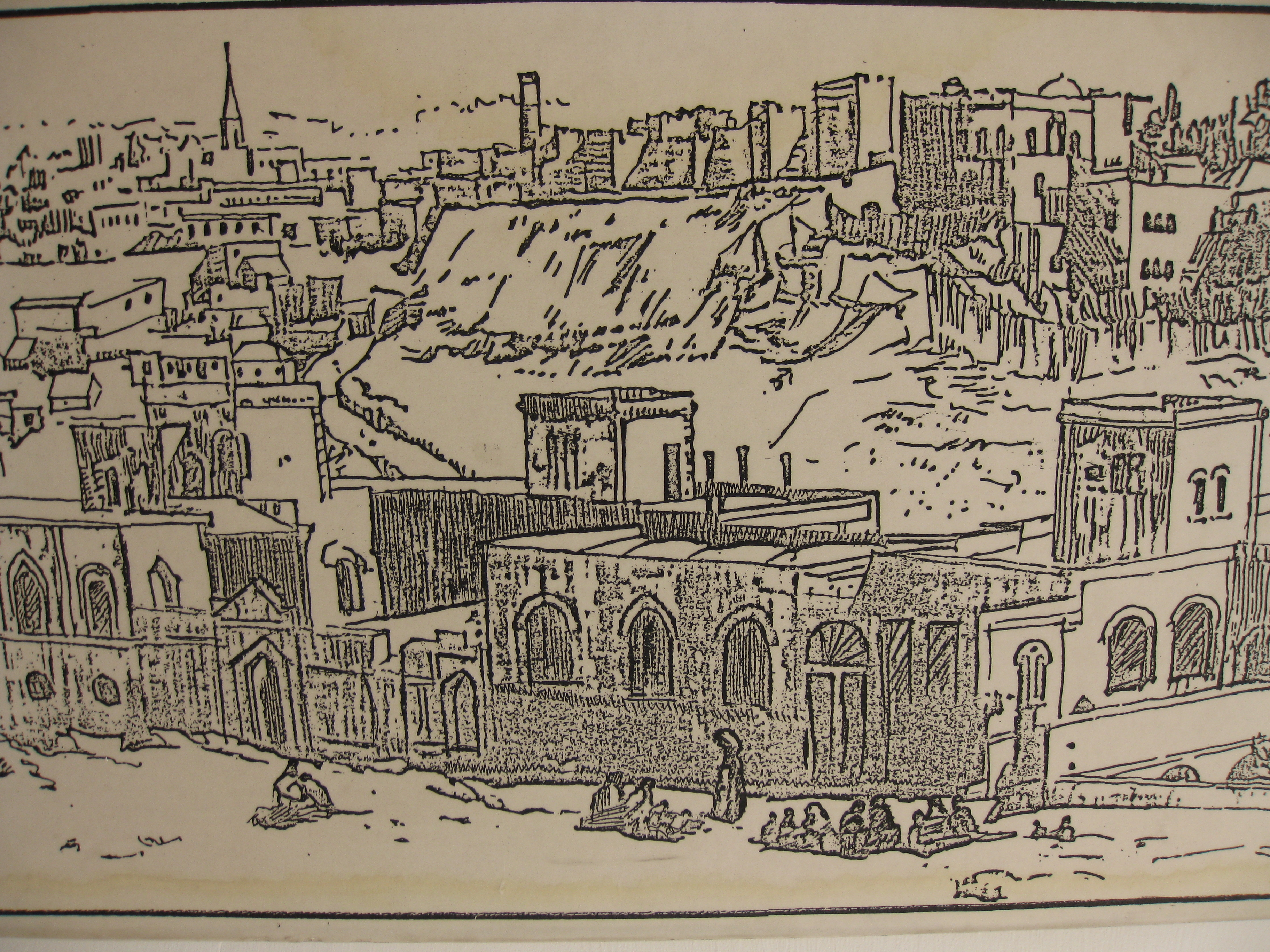 Patients at the enterance to St. John's Hosiptal (today - Mount Zion Hotel)